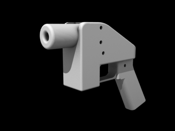 DD Liberator mockup